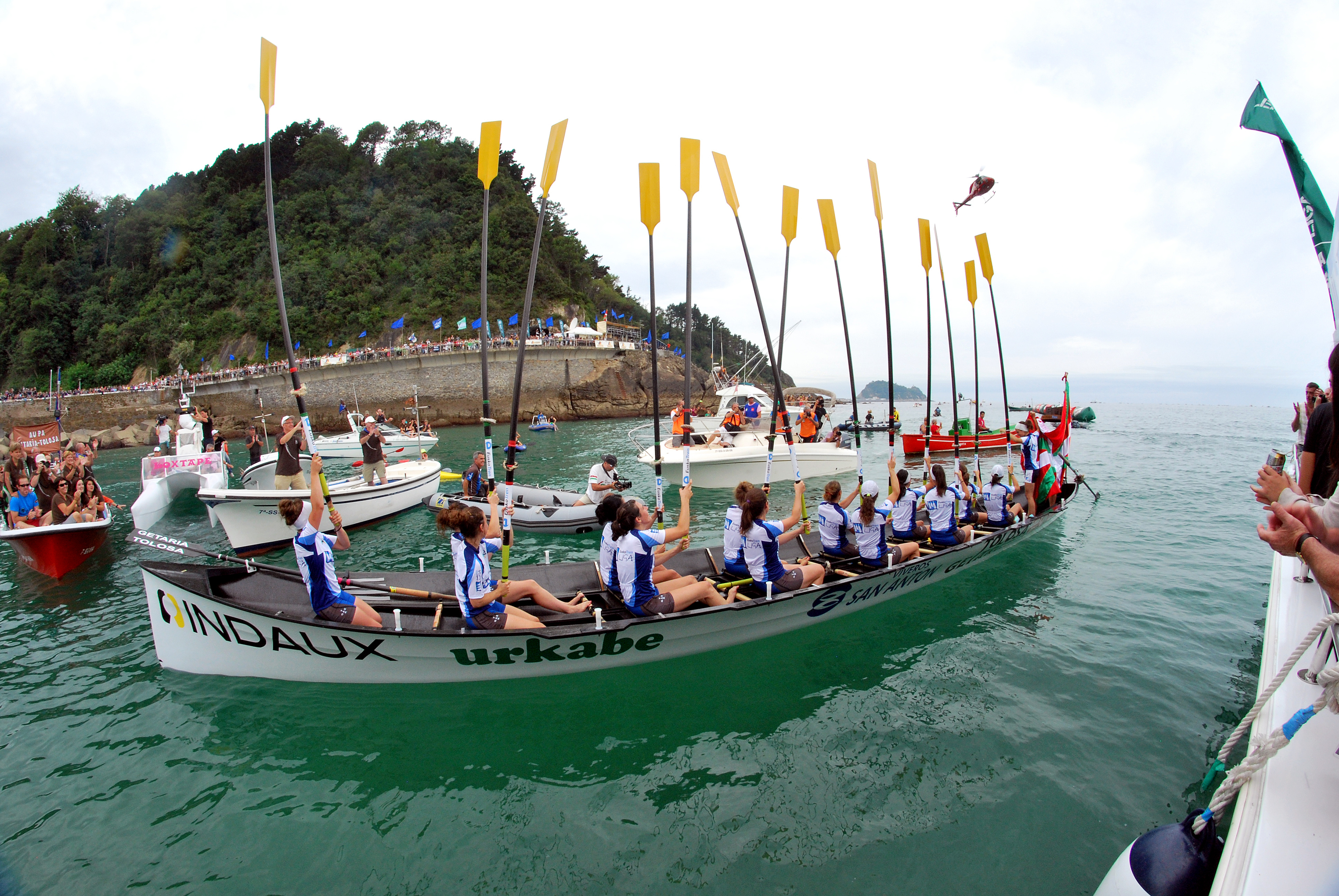 Girls from the Getaria-Tolosa rowing team, celebrating their victory